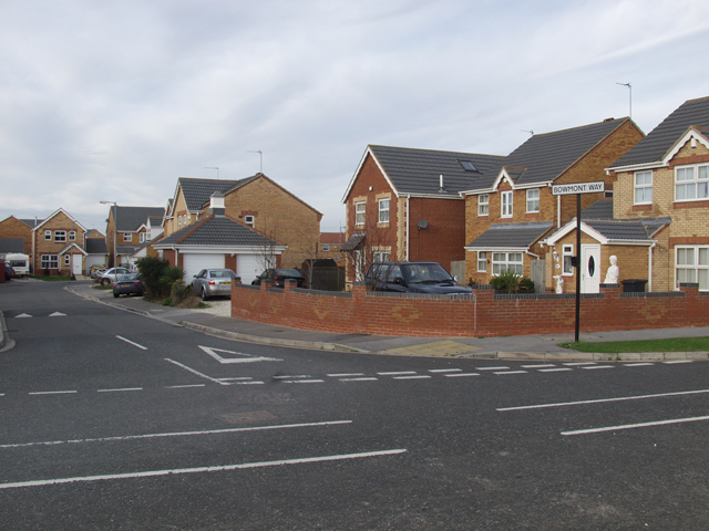 Bowmont Way, Hull On the northern edge of the Kingswood development